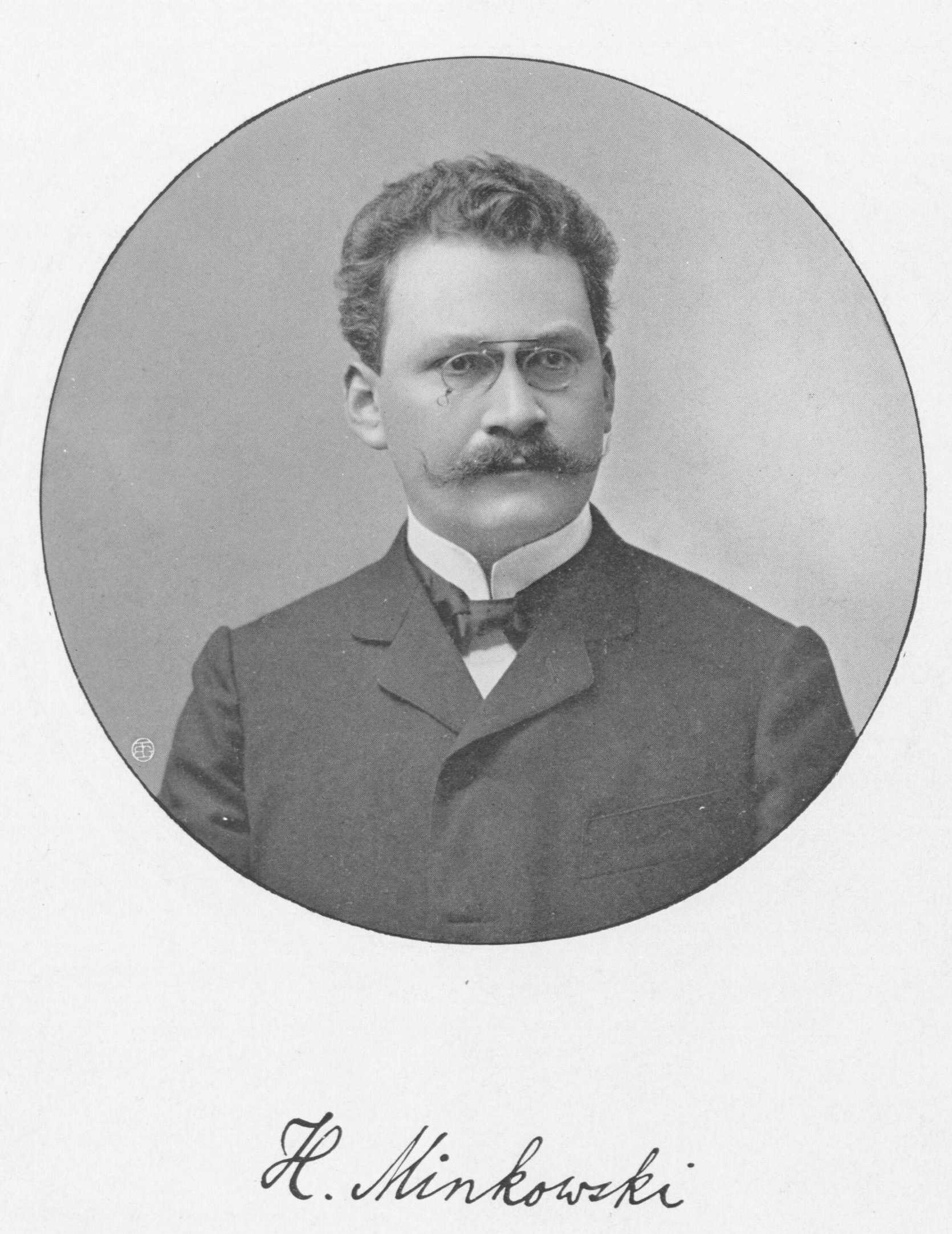 This is a detail of page 5 of the historical document: Title: Raum und Zeit (Jahresberichte der Deutschen Mathematiker- Vereinigung, Leipzig, 1909.)